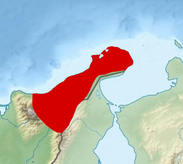 Provincia de Riohacha